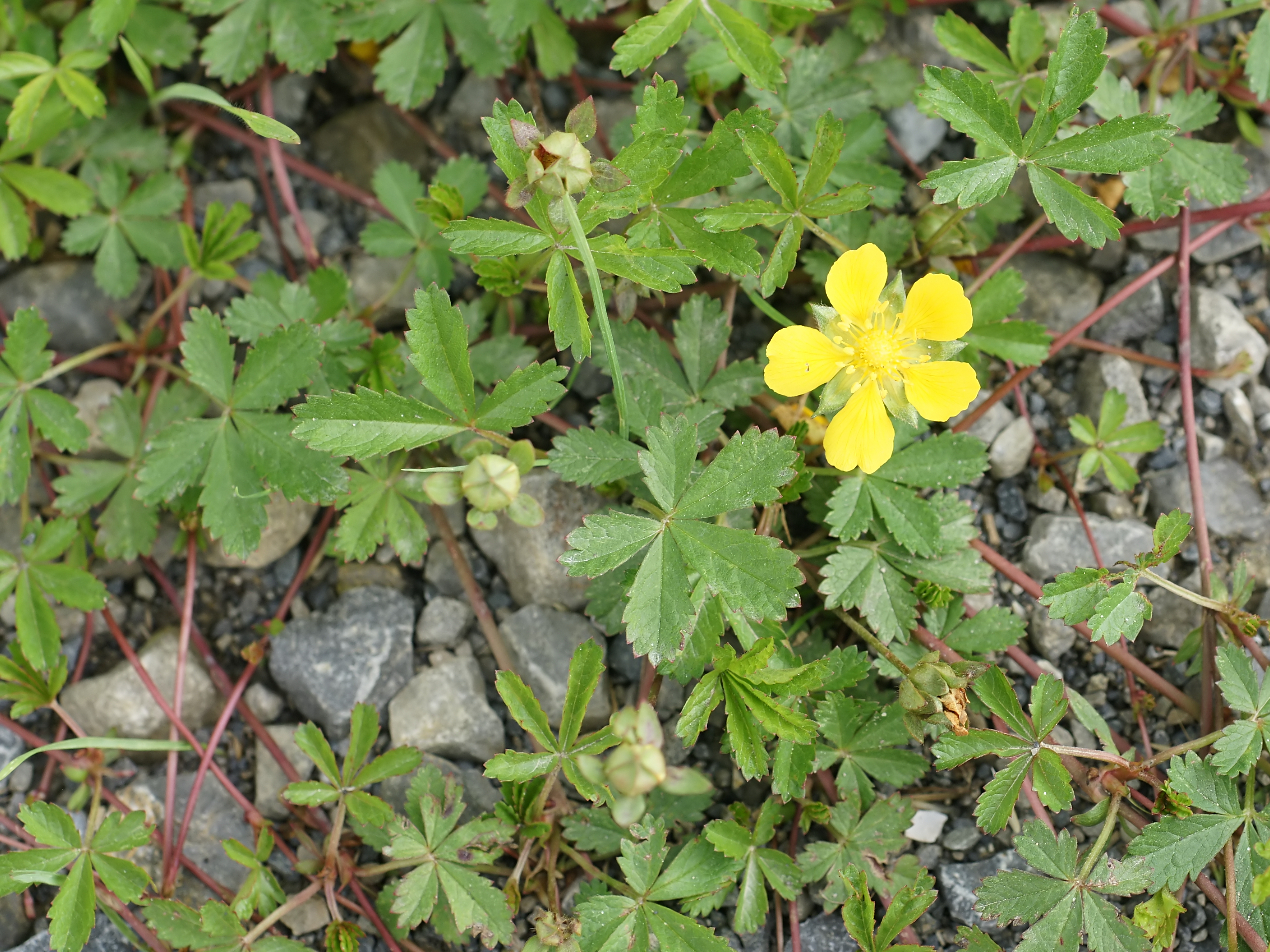 Creeping cinquefoil at Langdorp, Belgium